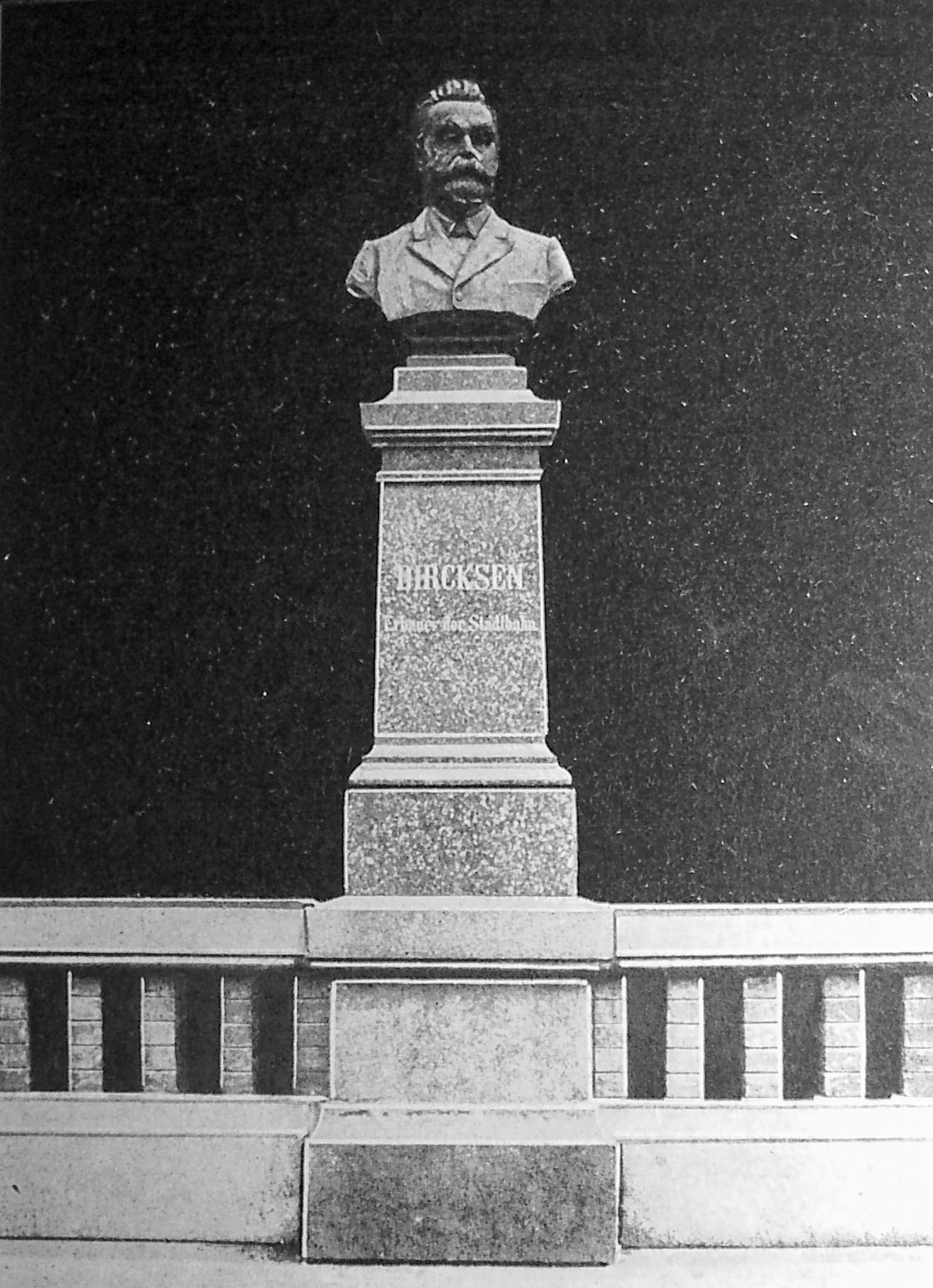 Bust of Ernst Dircksen by sculptor Ludwig Brunow (destroyed memorial in Berlin)